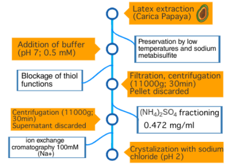 Simple diagram explaining the process of chymopapain extraction and isolation